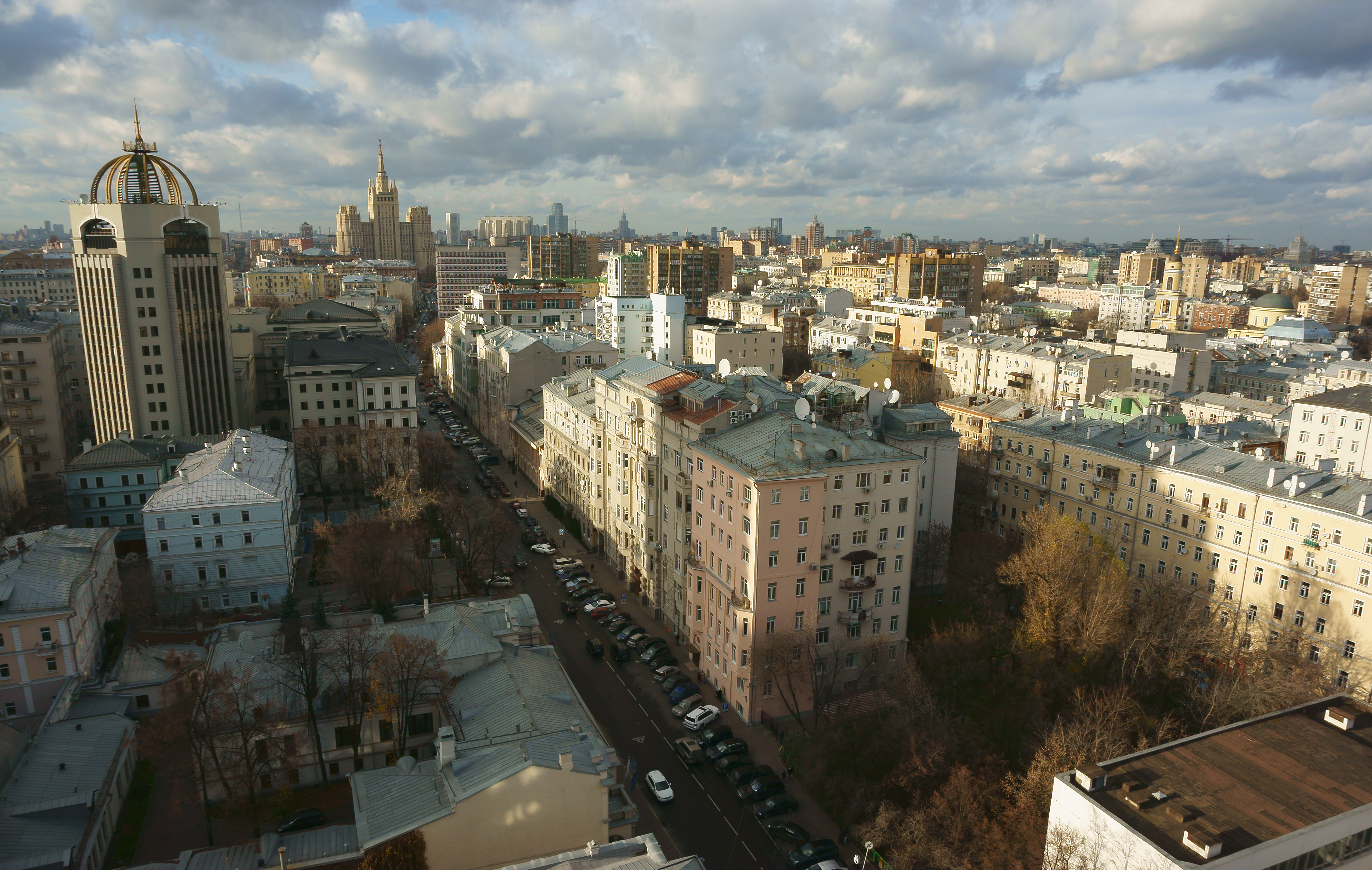 Povarskaya Street, Moscow, Russia